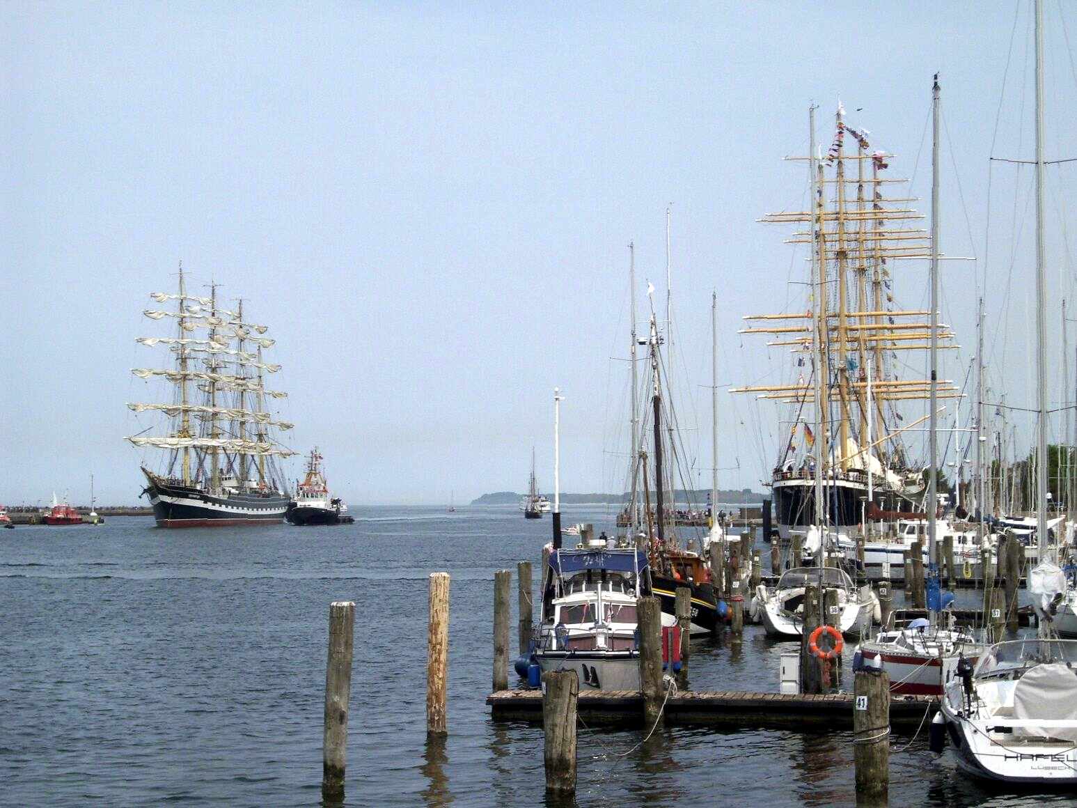 German seaside resort Travemuende, tall sailing ships Kruzenstern and Passat meeting